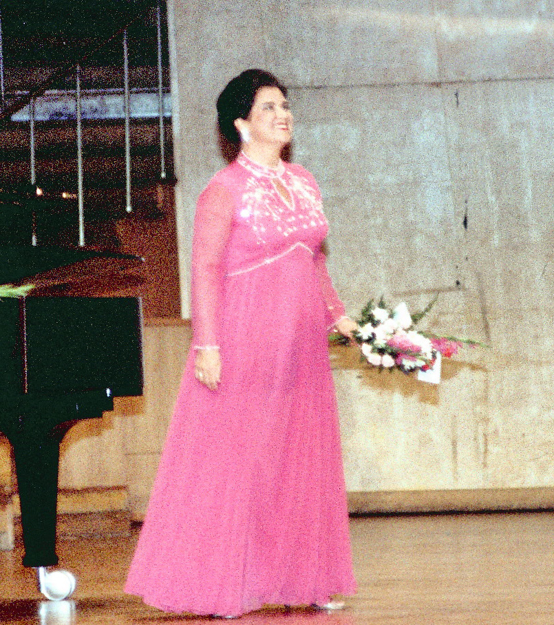 Elly Ameling and Rudolf Jansen at a concert in Gothenburg September 24th 1983.